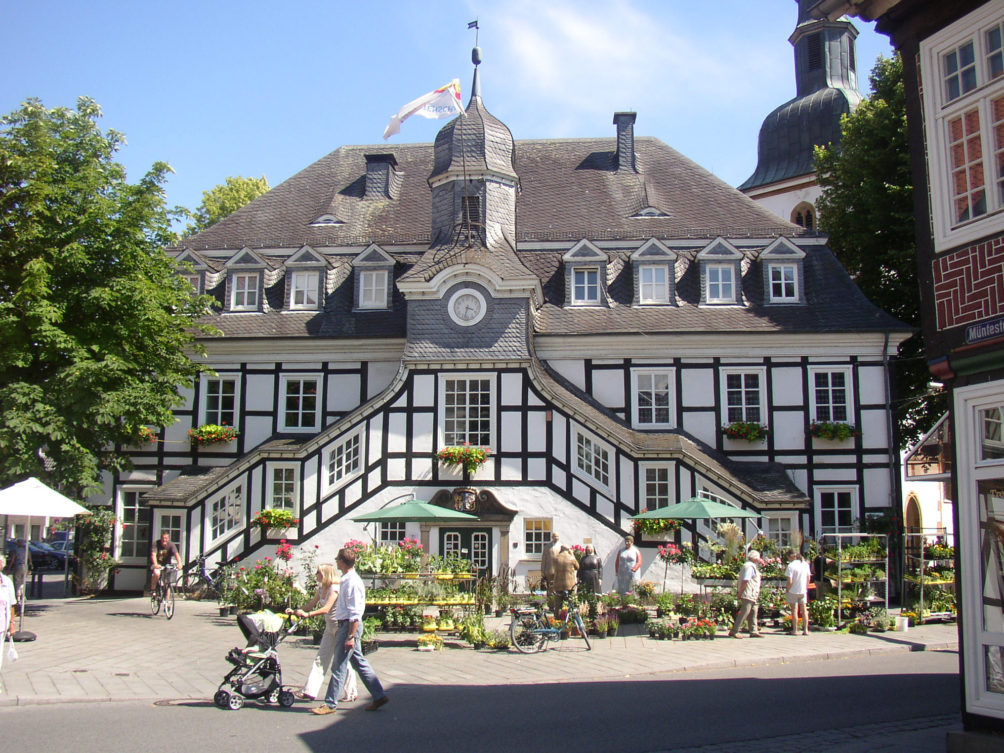 Historic town hall of Rietberg, District of Gütersloh, North Rhine-Westphalia, Germany.